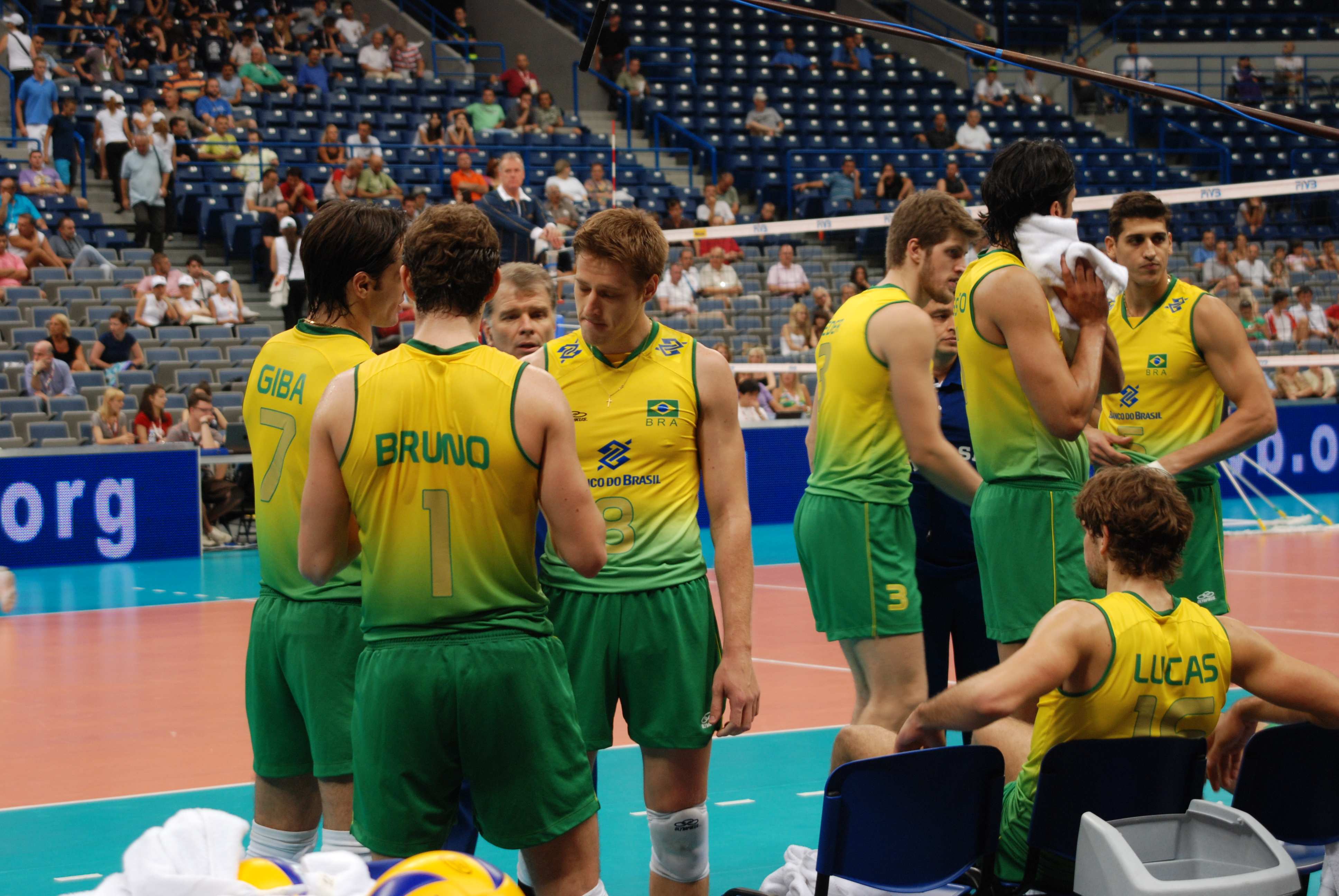 Brazil beat Argentina 3-0 (25-20, 25-22, 25-20) to secure first place in Pool F at the 2009 World League Final Six tournament on Friday. Brazil needed only 22 minutes to win the first set and while Argentina showed great desire in the second frame, their valiant effort was still not enough as they fell two sets in the hole with a 25-22 loss. Brazil wrapped up the match with a 25-20 third-set win to send Argentina packing from the tournament while cementing their credentials as the team to beat in the semifinals.